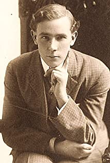 Harold Holland photgraphed c. 1920